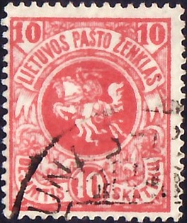 Stamp with Lithuanian blazonry (horseman) drawing in circle (= "Fourth Berlin blazonry drawing") Watermark 2 (wide vertical waves) Nominal amount: 10 Skatikų ("dešimtis" = ten) Color: brick-red